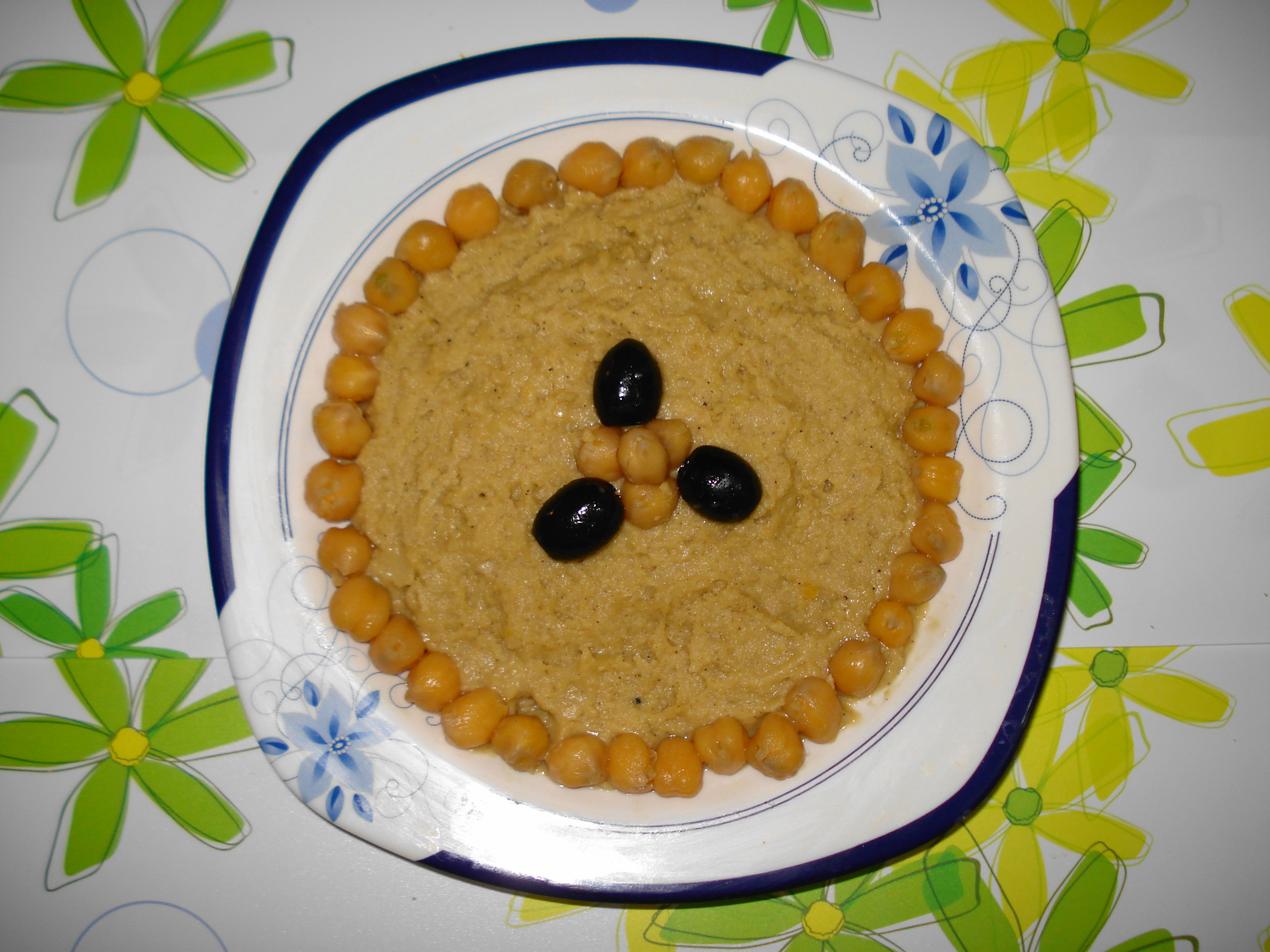 Hummus